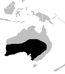 Range map of the Fat-tailed Dunnart (Sminthopsis crassicaudata)